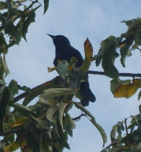 Austral Blackbird